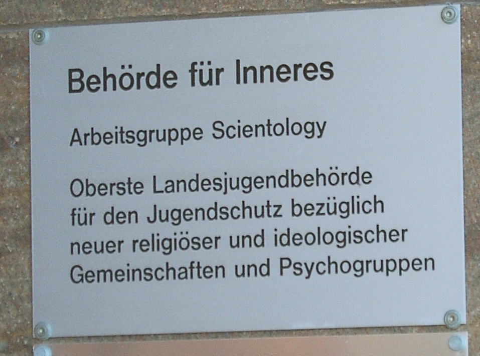 official door plate saying in german: "Interior Authority · Scientology Task Force · Supreme State Youth Authority on Youth Protection regarding New Religious and Ideological Communities and Psycho-Groups"